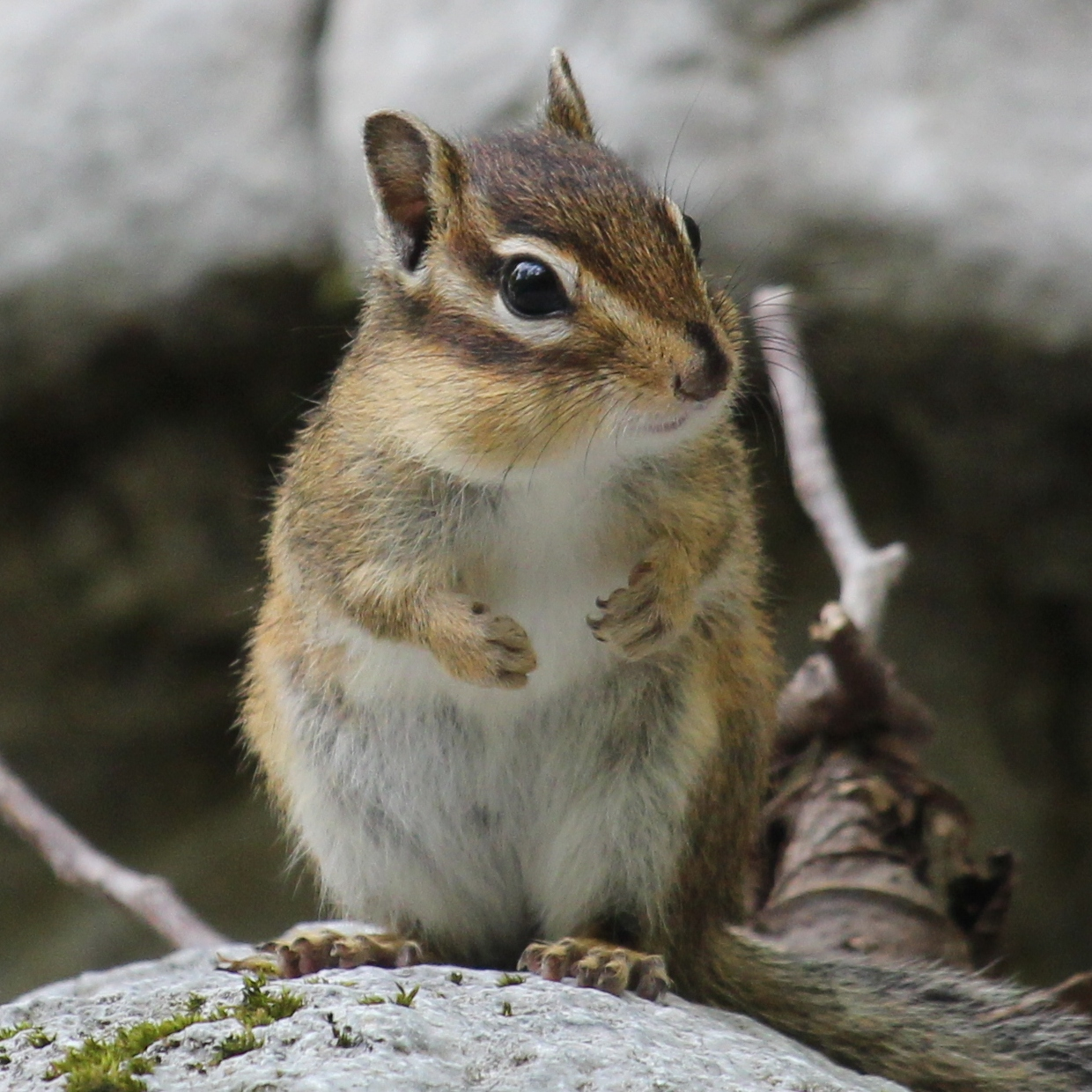 Tamias sibiricus barberi, in Mount Oike, Higashiomi, Shiga prefecture, Japan.